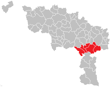 Municipalities in the region Thudinië, province Hainaut